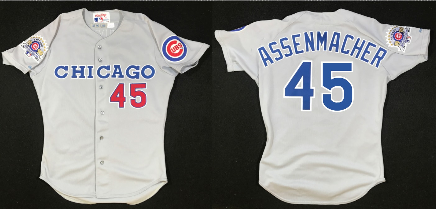 1990 Chicago Cubs #45 Paul Assenmacher game worn road jersey restored, relettered, and photographed by William F. Henderson who may be contacted through his website thedream.shop.